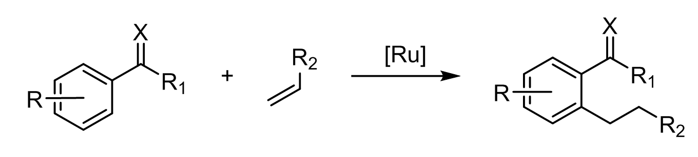 General scheme of a Murai reaction.